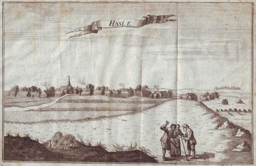 Hasle on Bornholm seen from the north with Ronne in the background. Copper plate engraving by J. Hass